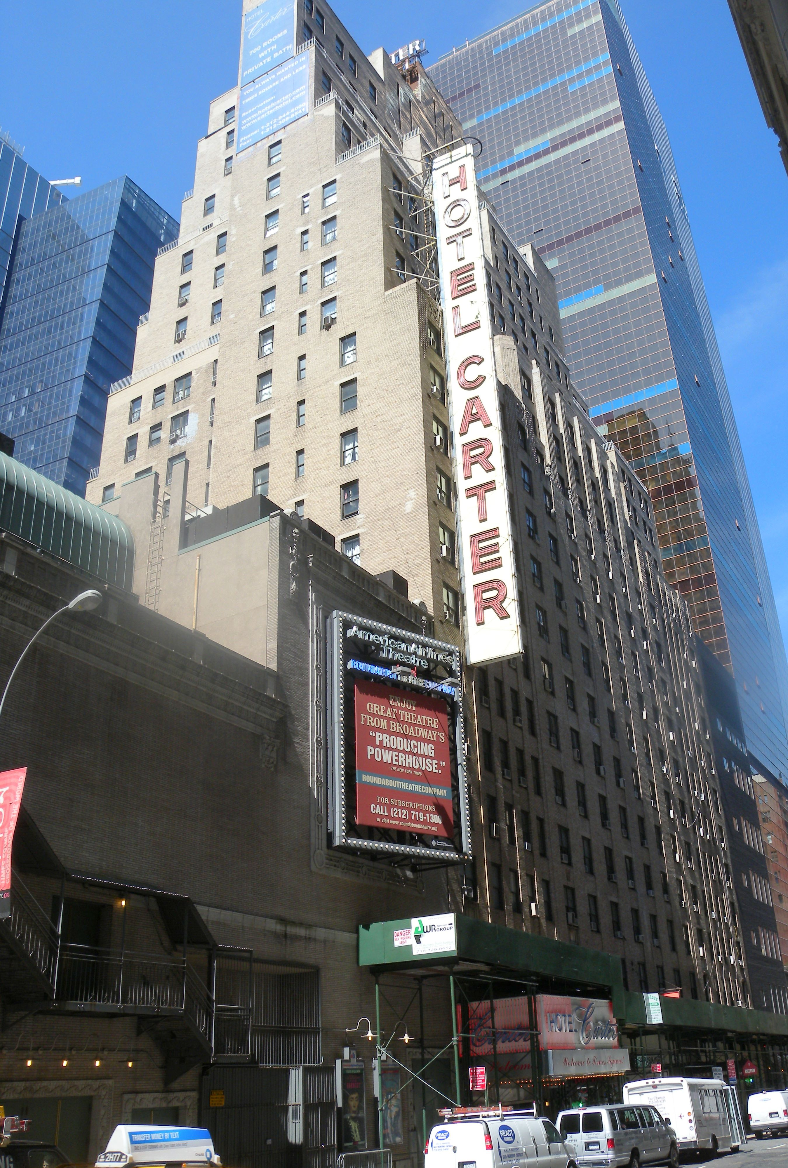 Looking west across 47th St at Hotel Carter on a sunny day.